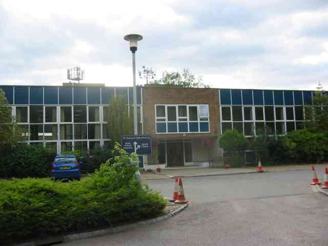 Dr Challoner's High School Little Chalfont. This school is tucked away from the main road Not sure about the architecture